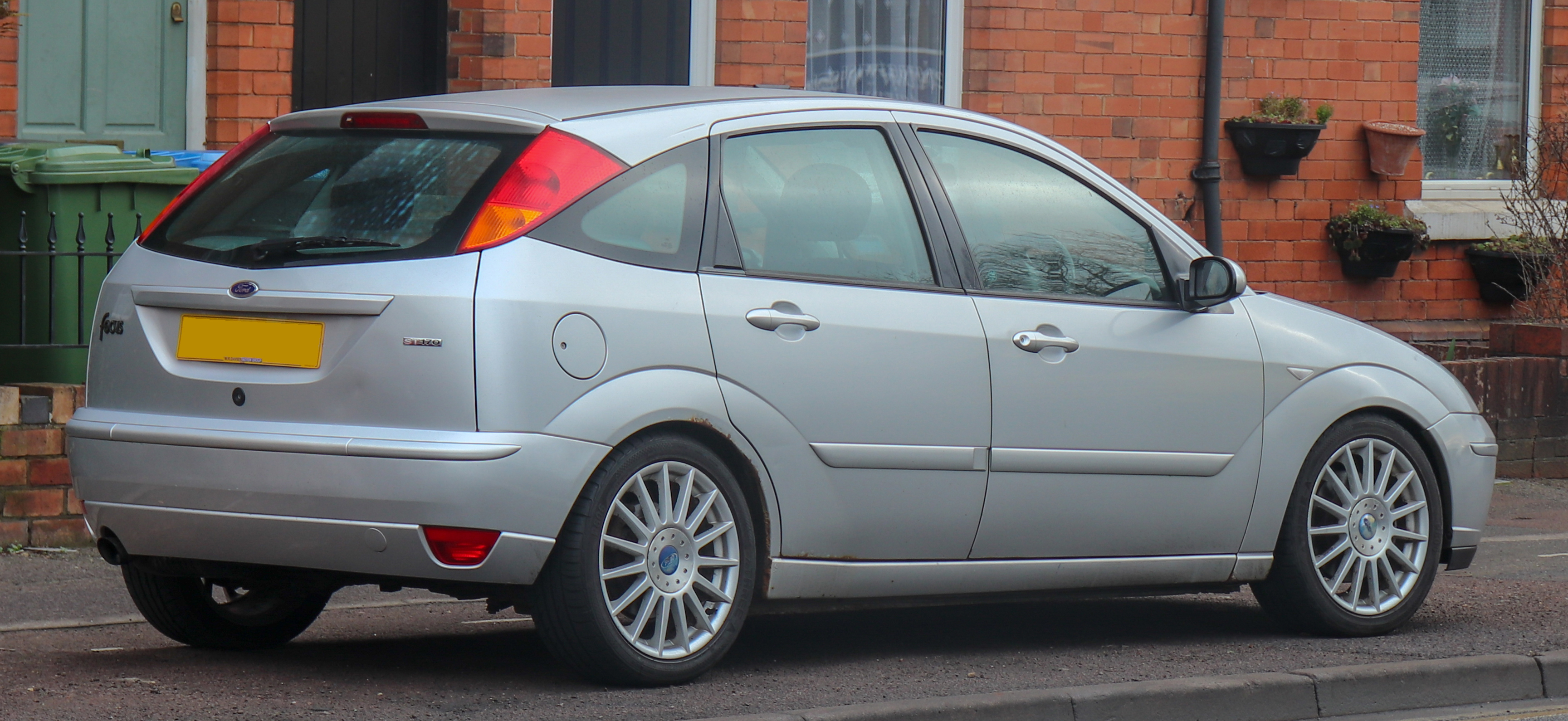 2004 Ford Focus ST170 2.0 Rear Taken in Stratford-upon-Avon